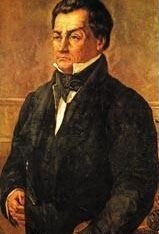 Diogo Antônio Feijó, regent of Brazil (1835-37), by Miguelzinho Dutra.